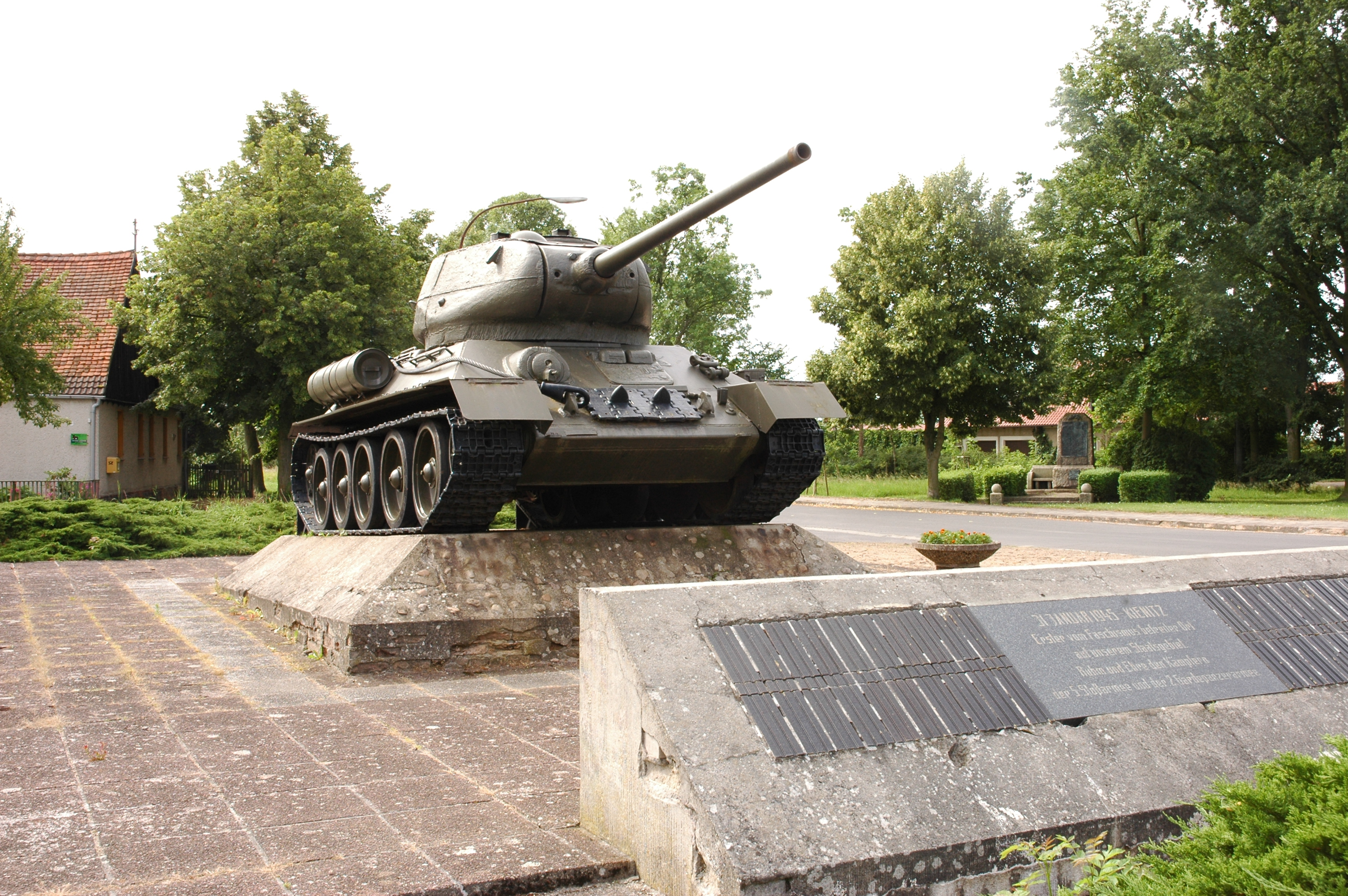 Sovjet momorial in Kienitz, Oderbruch, Germany Sovjetisk minnesmerke i Kienitz påm Oderbruch i Tyskland